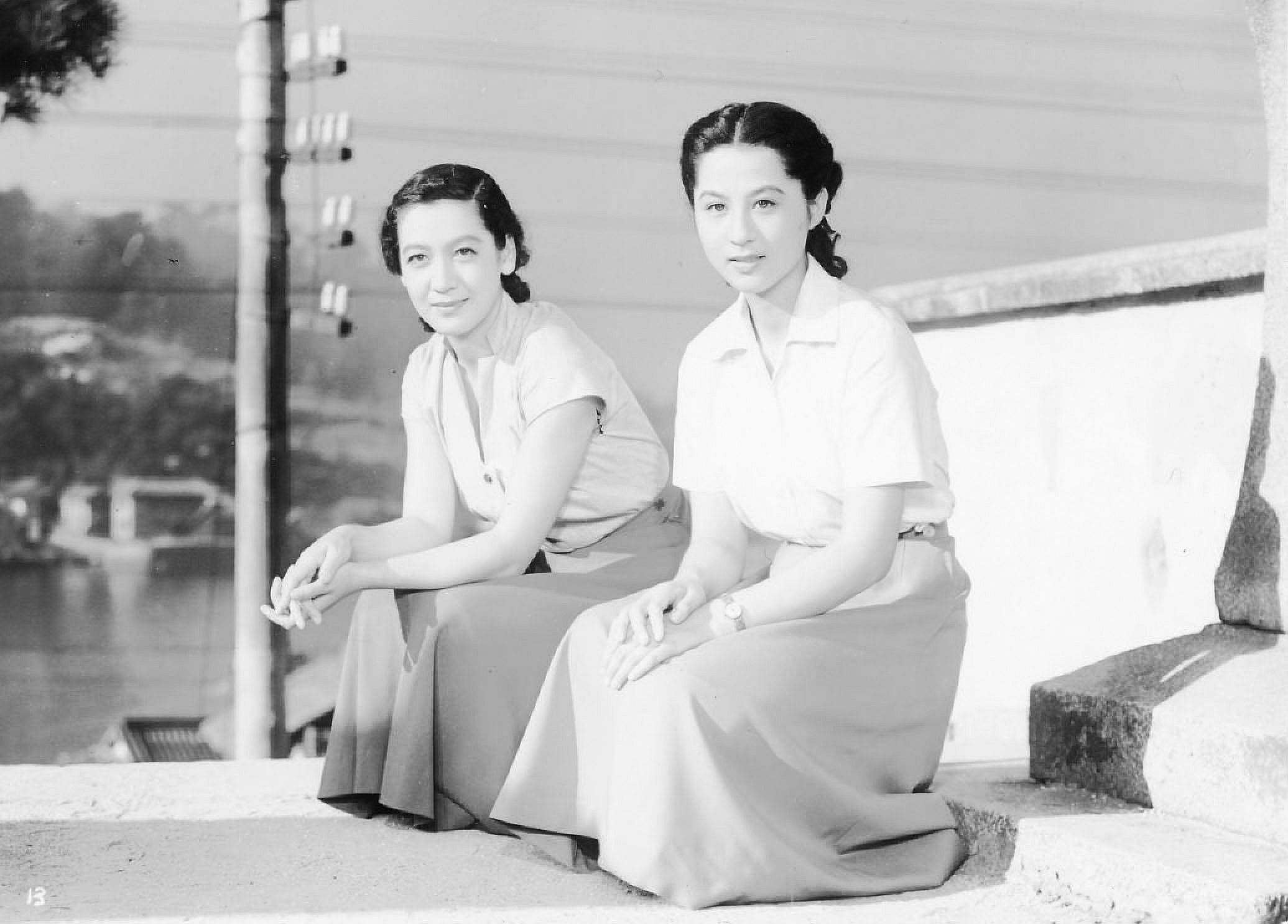 Kyōko Kagawa and Setsuko Hara in 1953 Japanese movie Tokyo Story